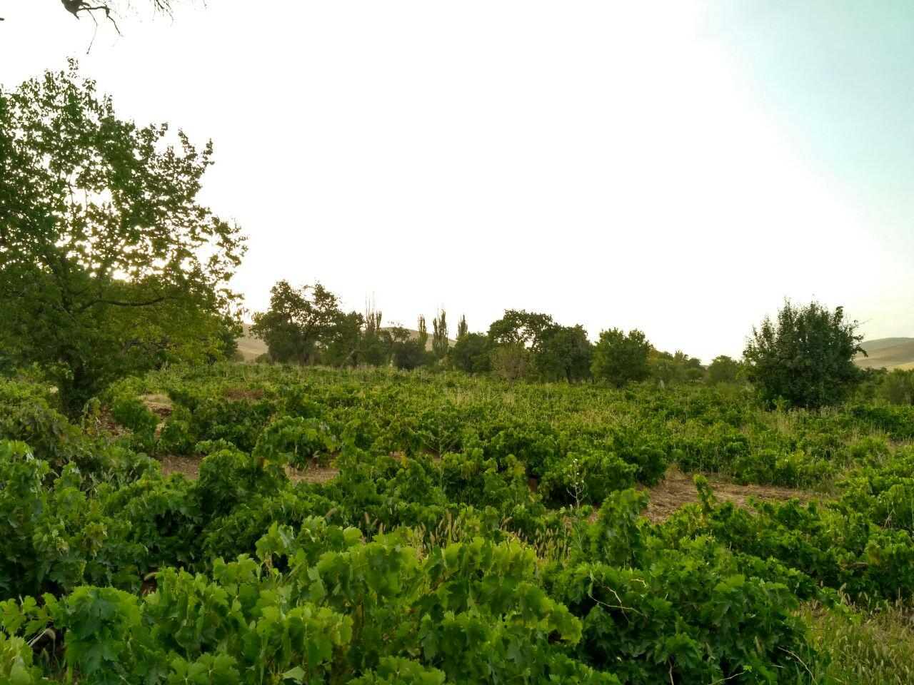 Agricultural in Aqbolagh village